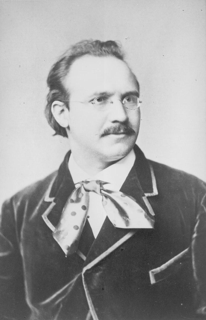 Max Schlosser (1835–1916), tenor opera vocalist